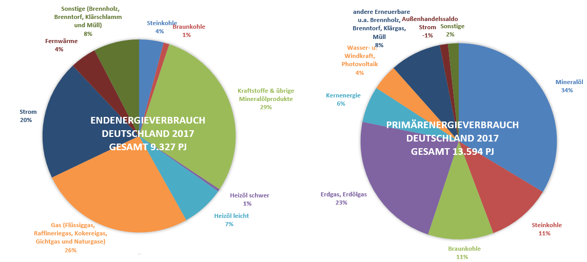 Own interpretation of data based on reports of BMWi